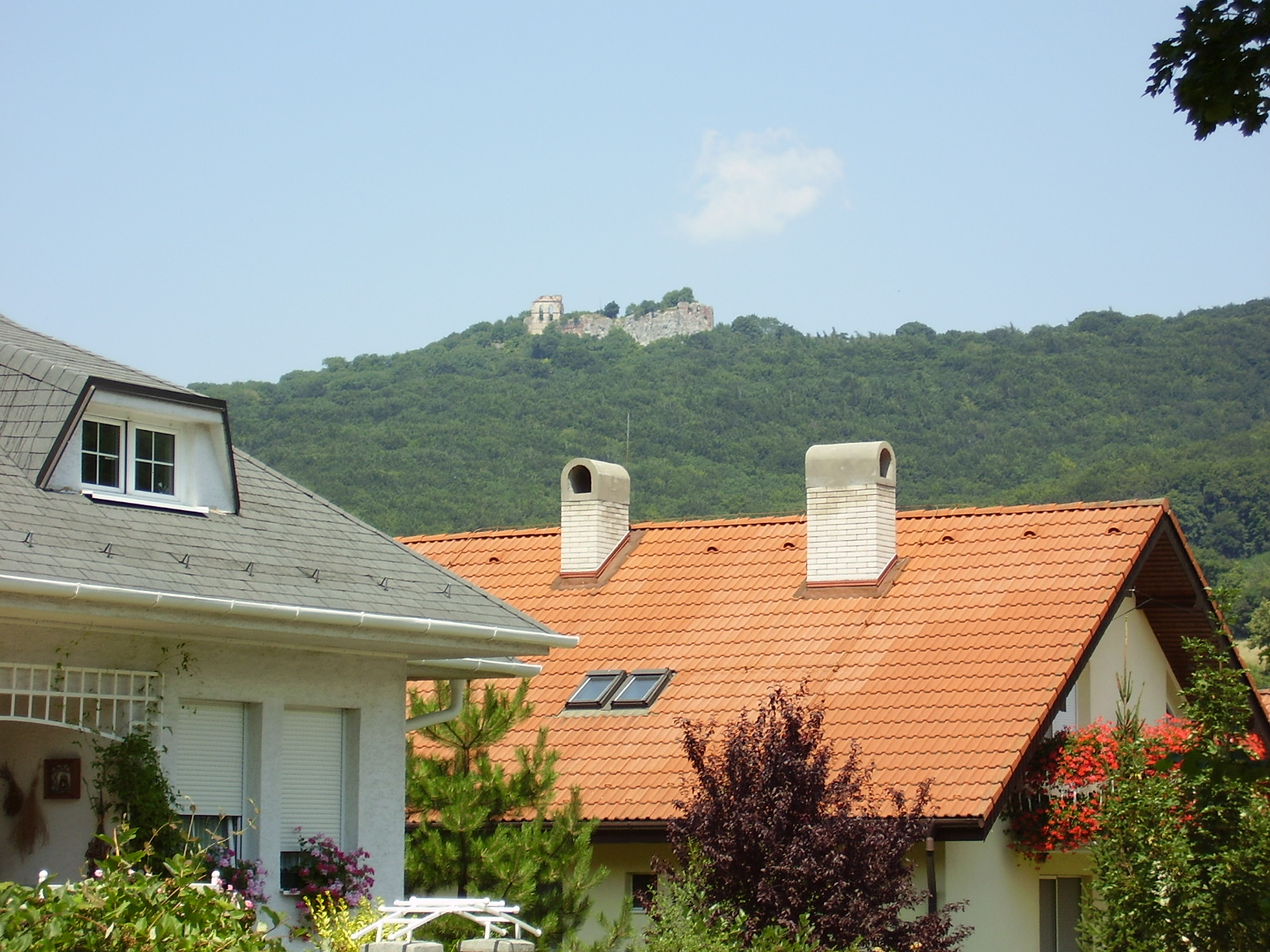 Slovakia, ruins of the Pajstun castle over the Borinka village